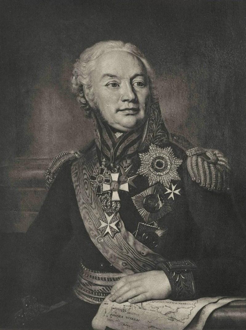 Portrait of Russian Count and military commander Fredrik Vilhelm von Buxhoevden (1750–1811) who, among other wars, fought against Sweden 1788–90 and Finnish War 1808–09.